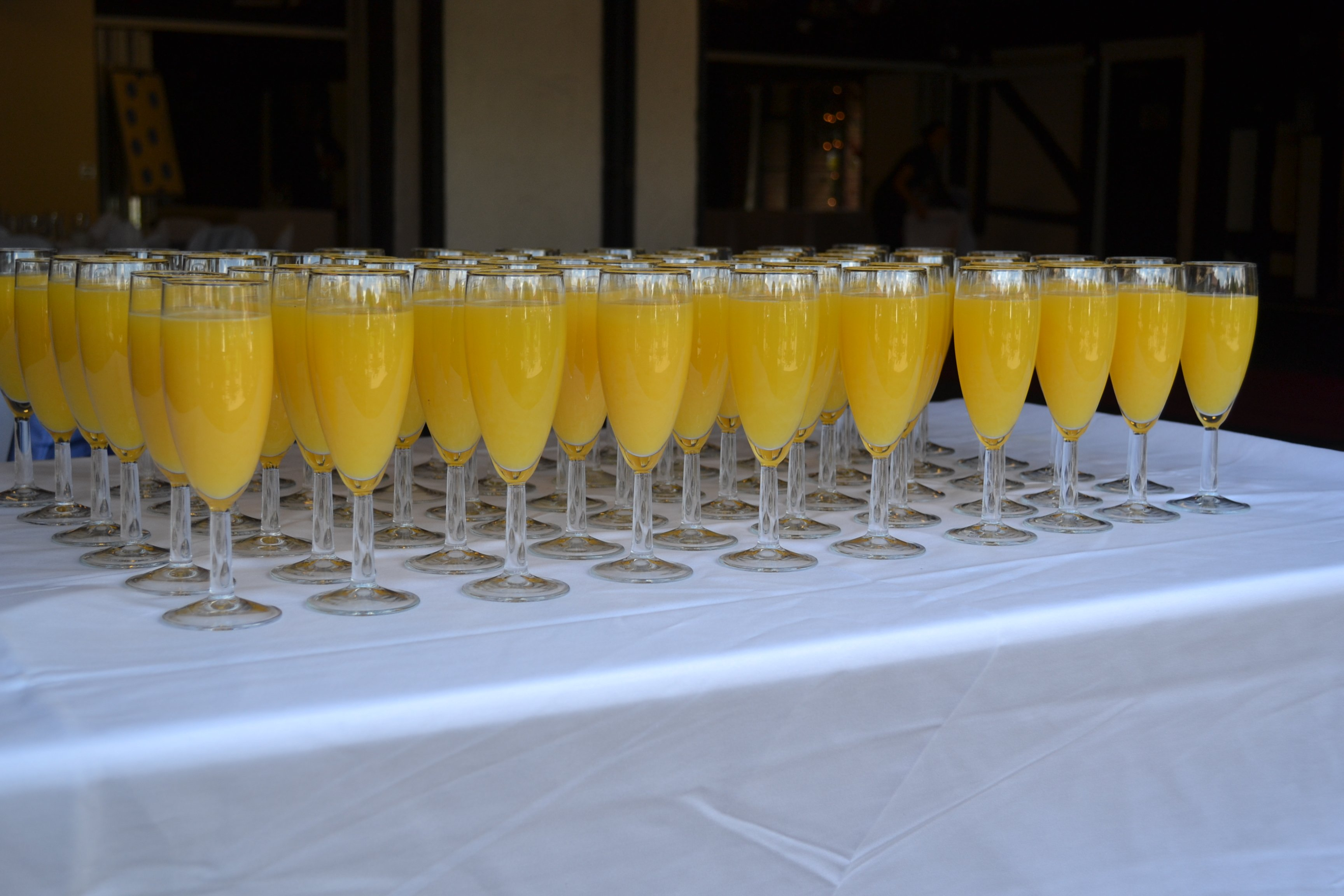 The welcome drinks at a friend's wedding reception